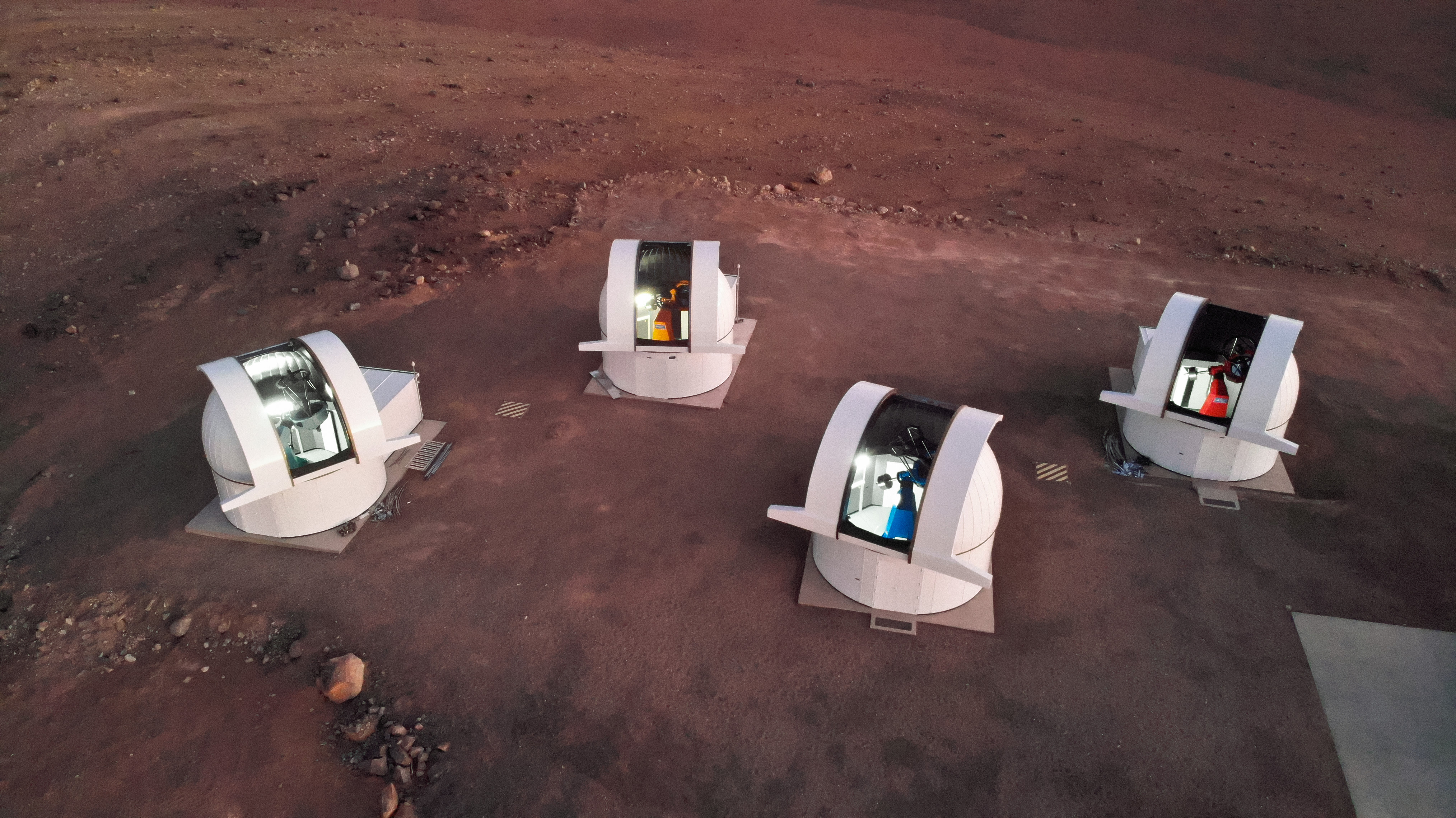 The four telescopes of the SPECULOOS Southern Observatory operating at Cerro Paranal, Chile, preparing to search for potentially habitable Earth-sized planets surrounding ultra-cool stars or brown dwarfs.